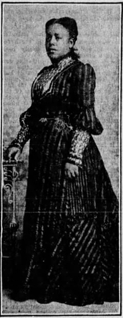 Alicey Wiley Seay in 1905. Picture from "The New York Age."